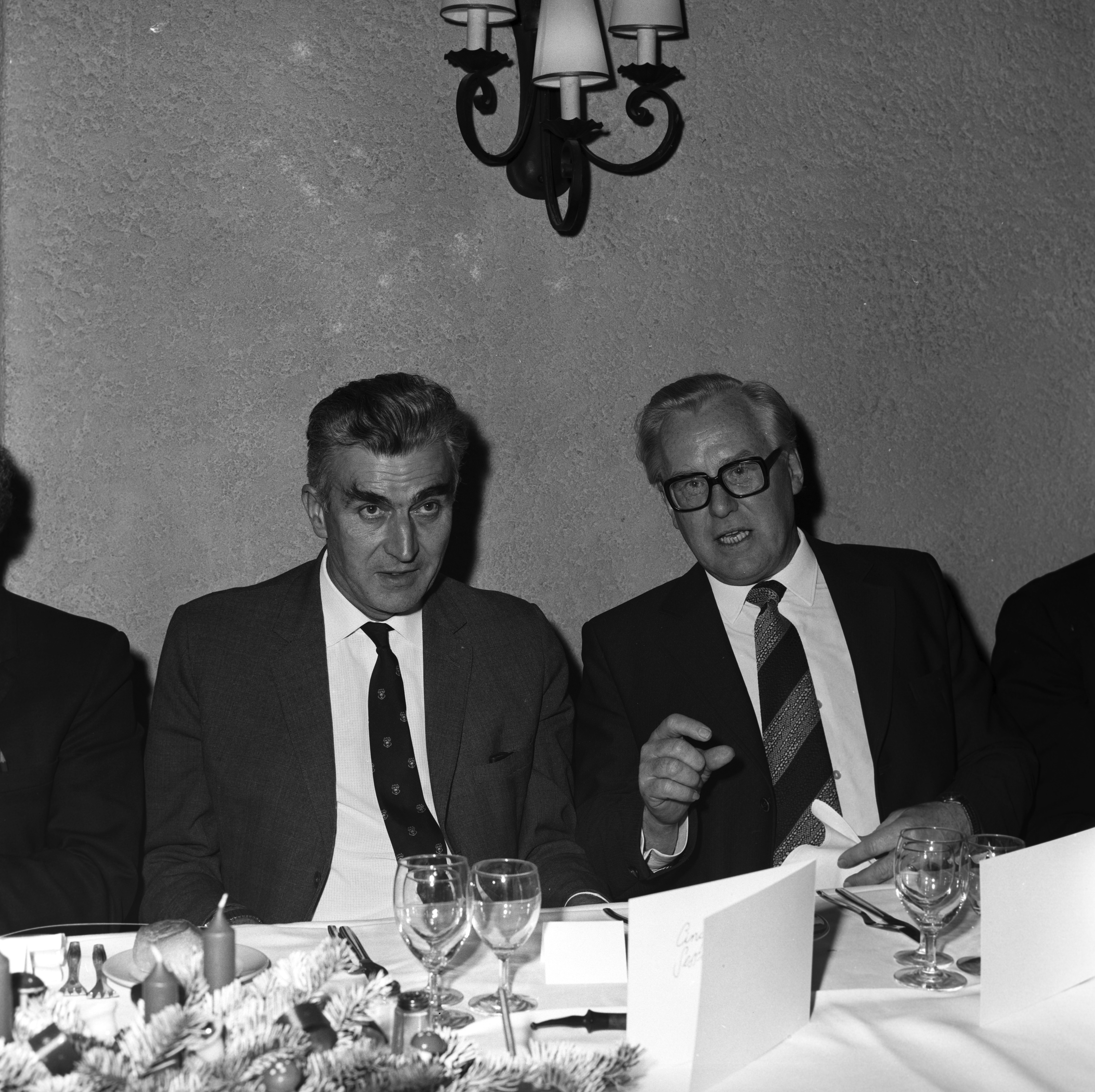 John Adams, CERN Director General, and Gösta Ekspong, Chair of the CERN Scientific Policy Committee, during a CERN Council dinner.